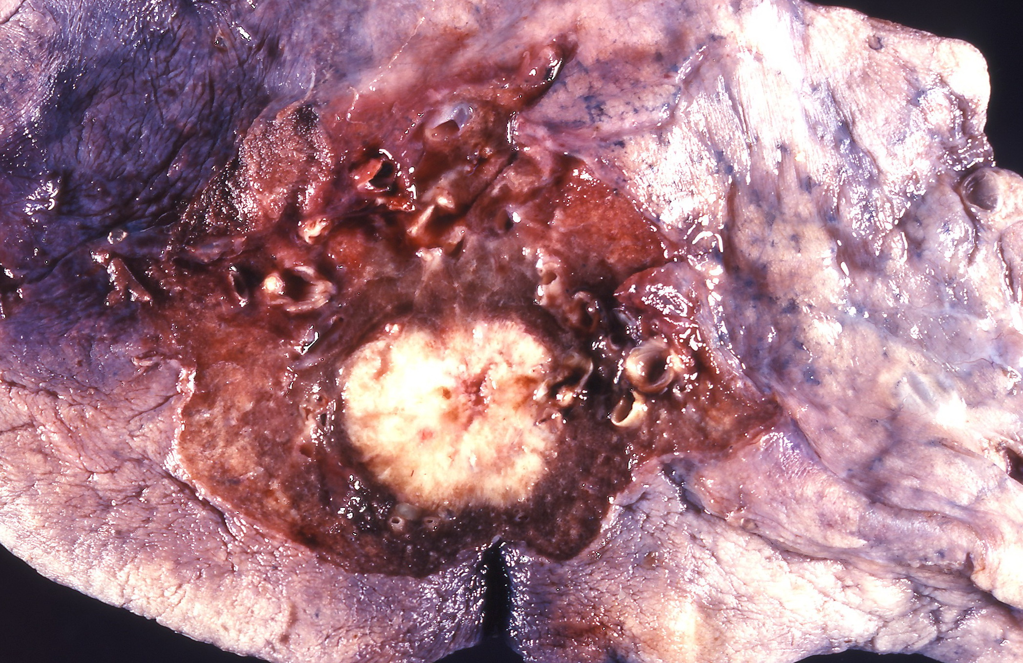 Peripherally located adenocarcinoma.